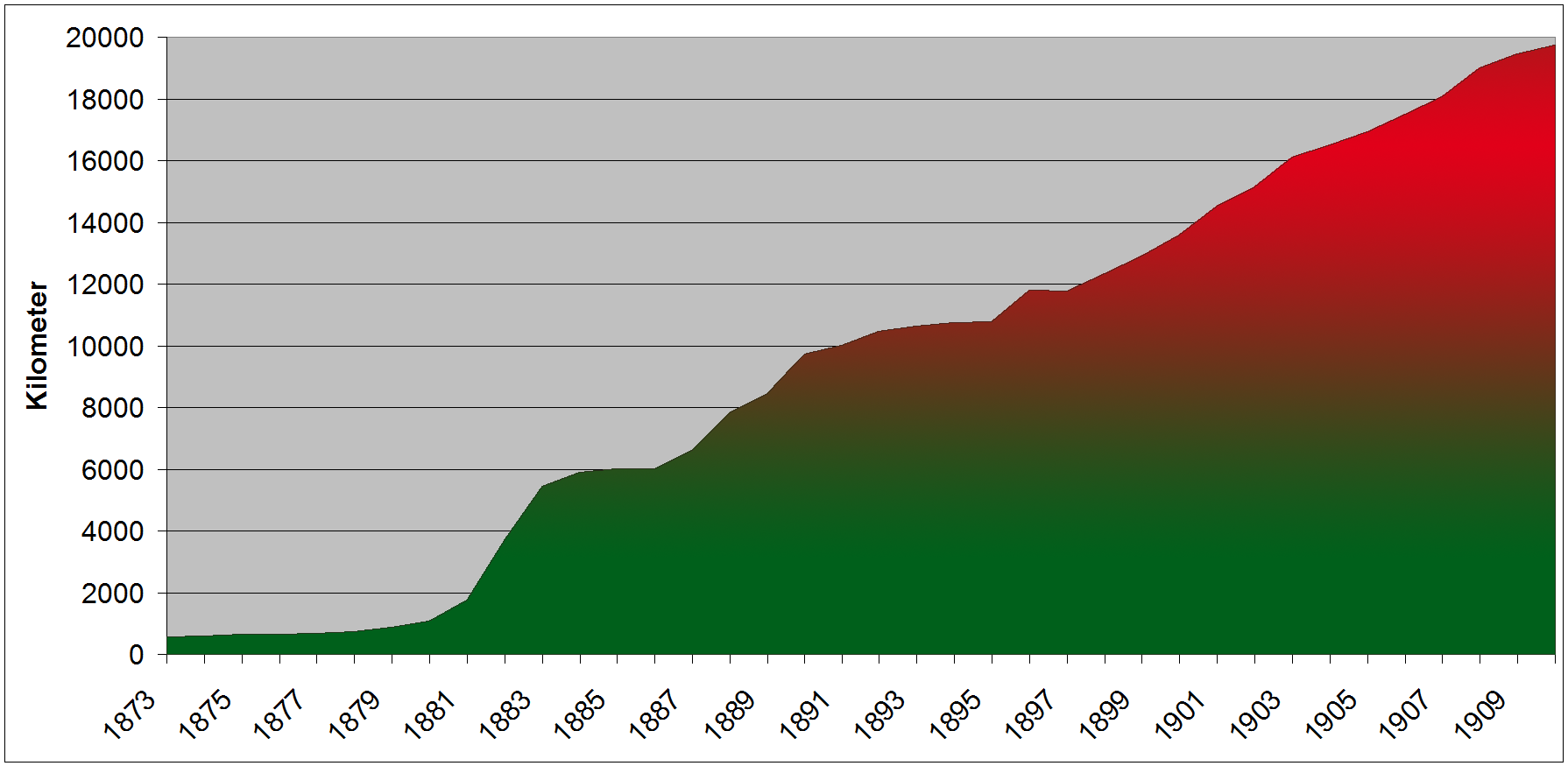 Expansion of Mexican railways until the Revolution (1910)